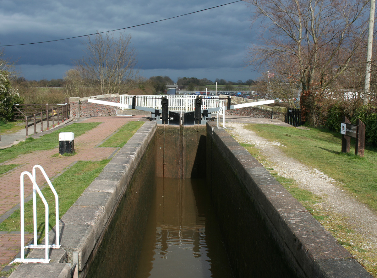 Cholmondeston Lock, Cholmondeston, Cheshire